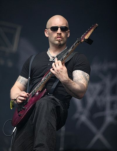 Charles Hedger live with Mayhem